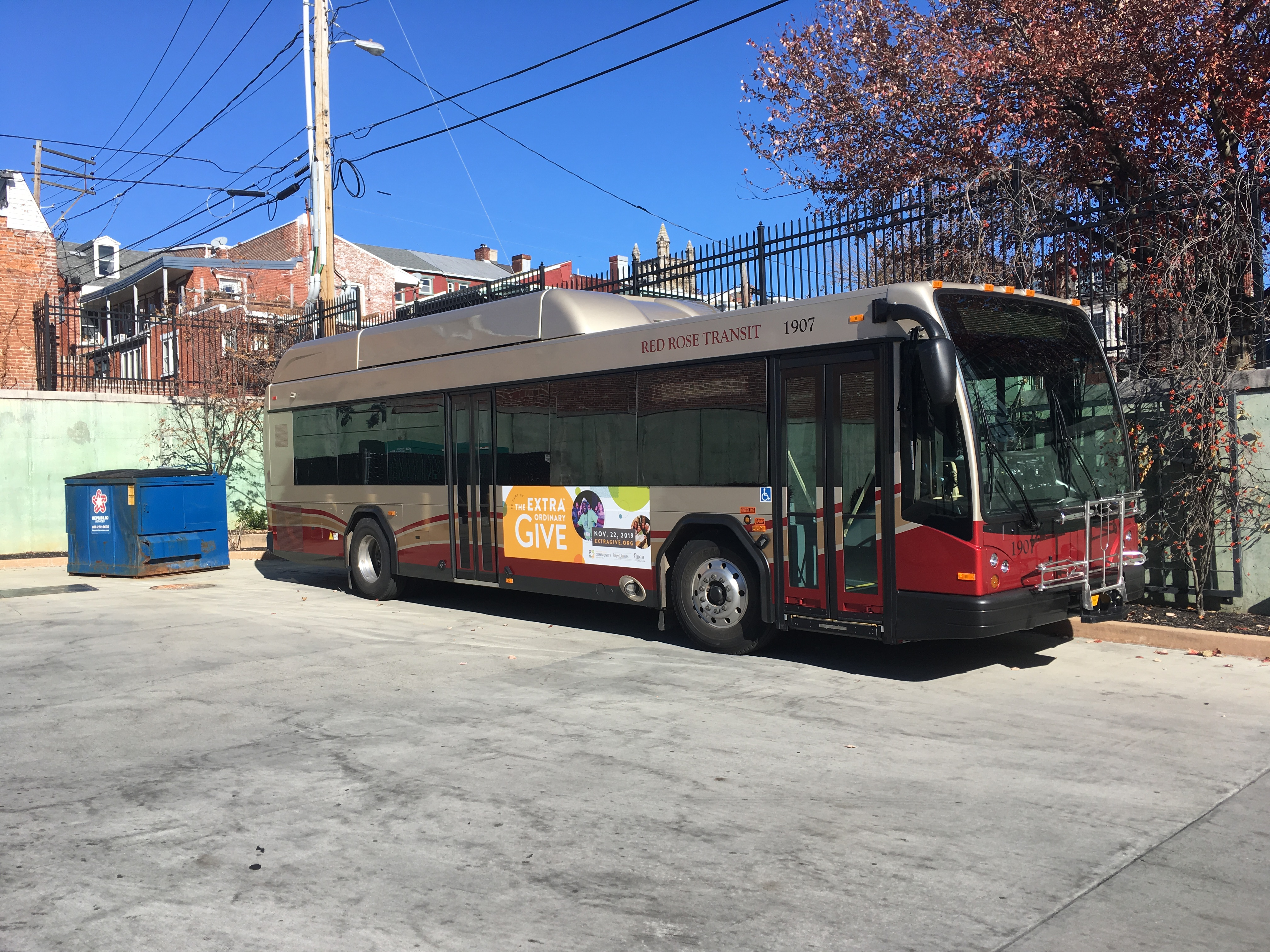 Red Rose Transit Authority (RRTA) Gillig BRT bus #1907 at the Queen Street Station in Lancaster, Pennsylvania